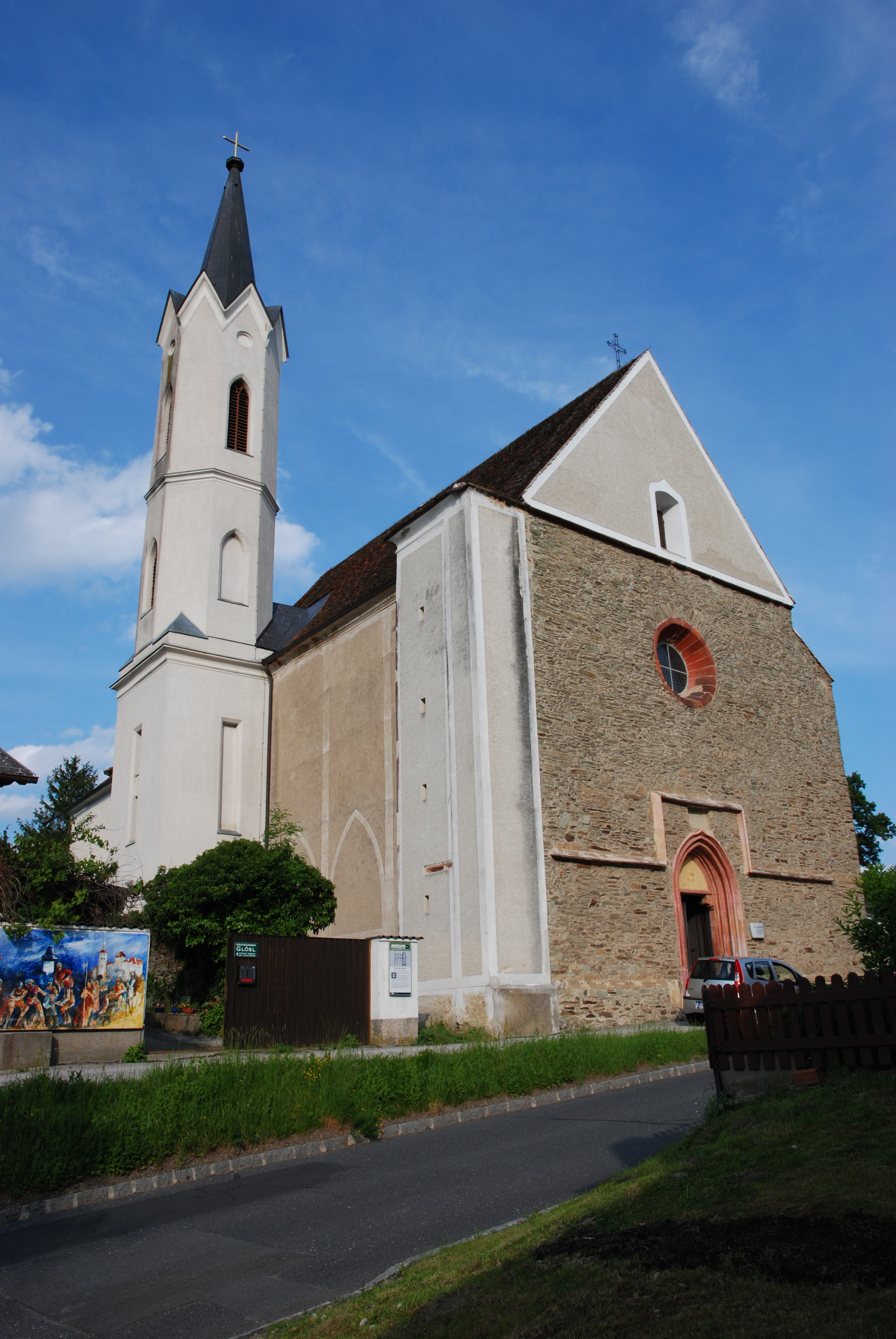 Katholische Kirche Stadtschlaining